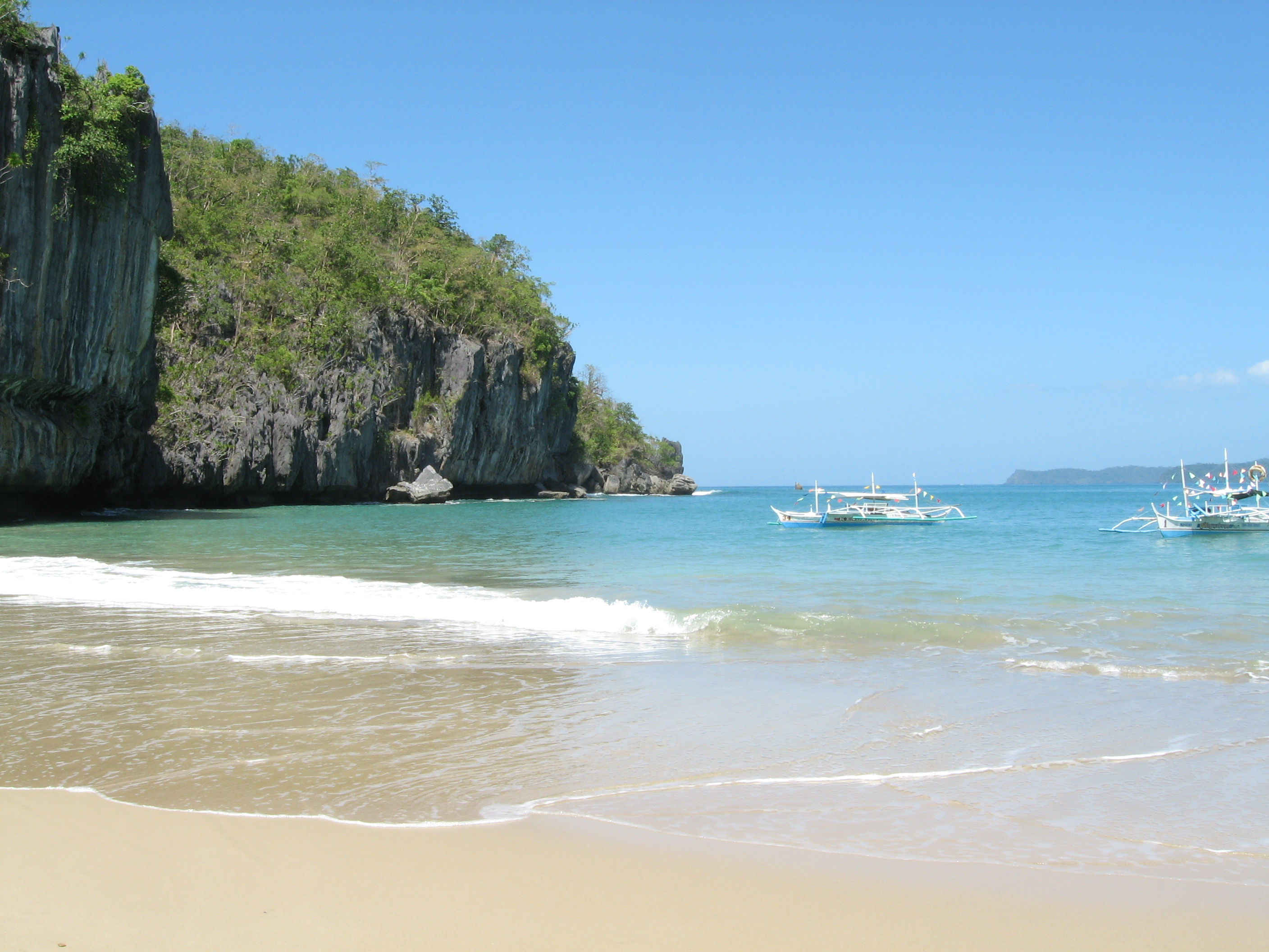 Underground river beach, Palawan, Philippines